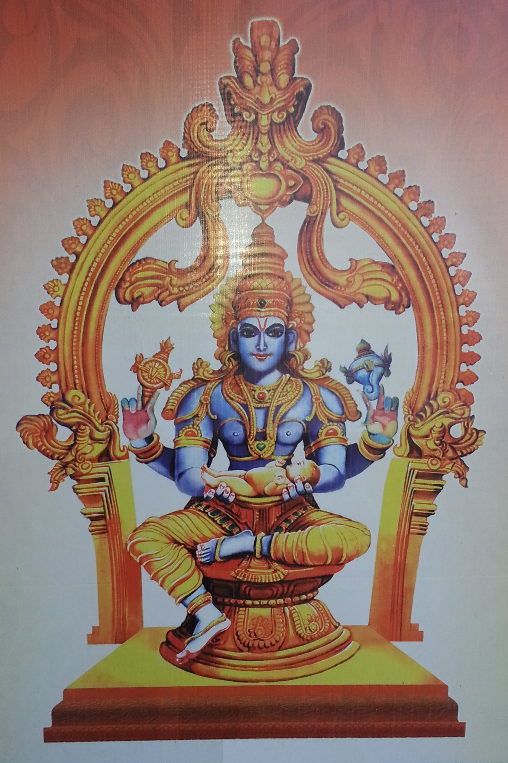 Puzhavathu Sree SanthanaGopala Temple - Prathishta Samkalpam